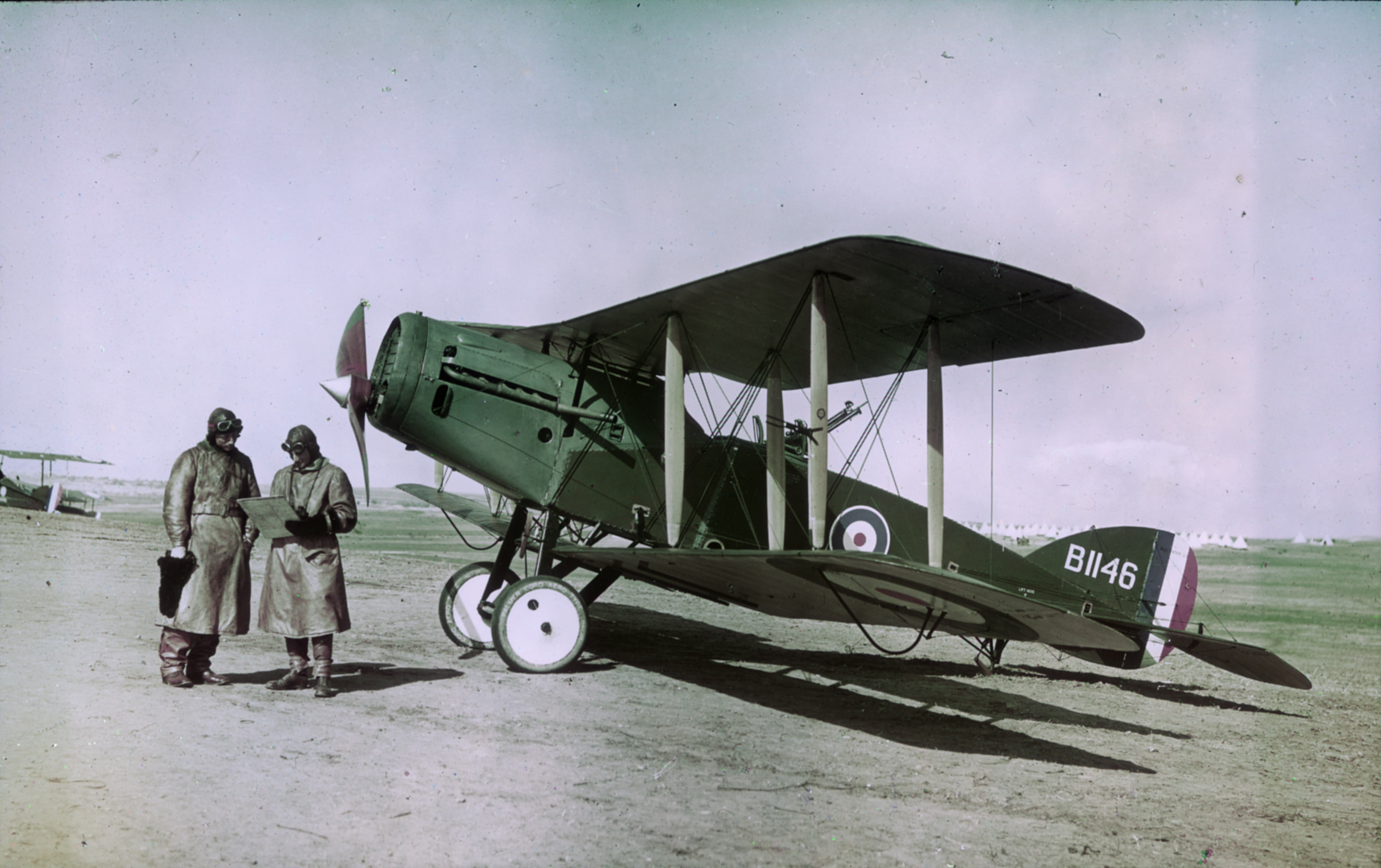 Palestine: Mejdel Jaffa Area, Mejdel. Observer, pilot, and Bristol Fighter F2B aircraft, Serial B1146, of No. 1 Squadron, Australian Flying Corps. The pilot (left) is Captain (Capt) Ross Macpherson Smith, MC and bar, DFC and two bars. Capt Hurley visited No. 1 Squadron on the 25 and 28 February 1918 and this photograph was probably taken on one of these days. This image is a colour Paget Plate.